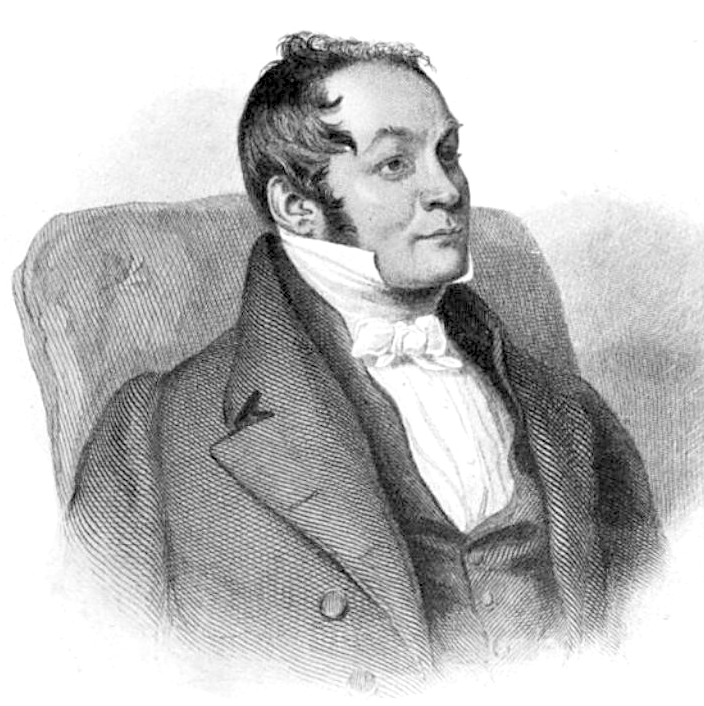 An engraving of Richard Harris Barham (Thomas Ingoldsby).